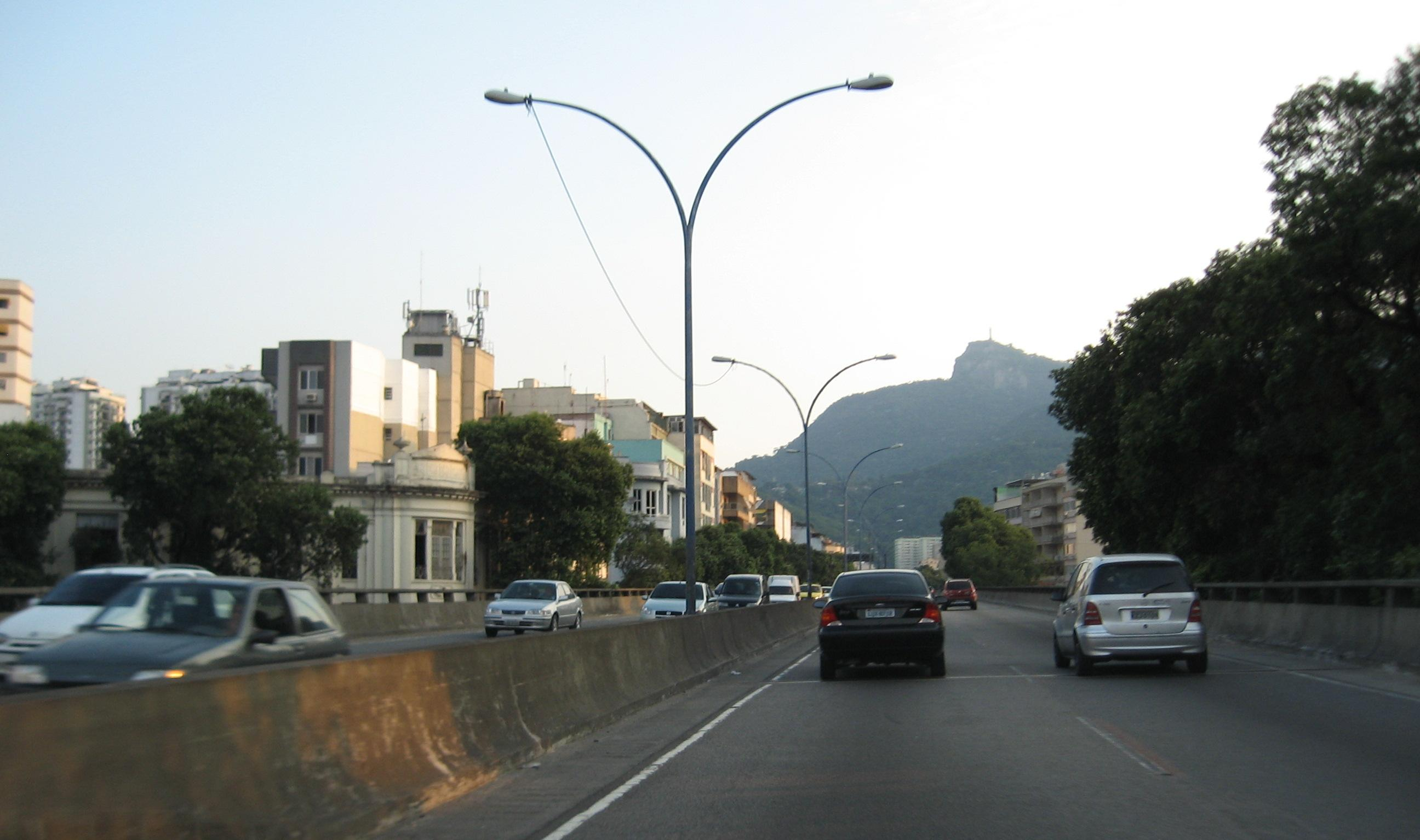 Elevado Paulo de Frontin-Rio de Janeiro-Brasil